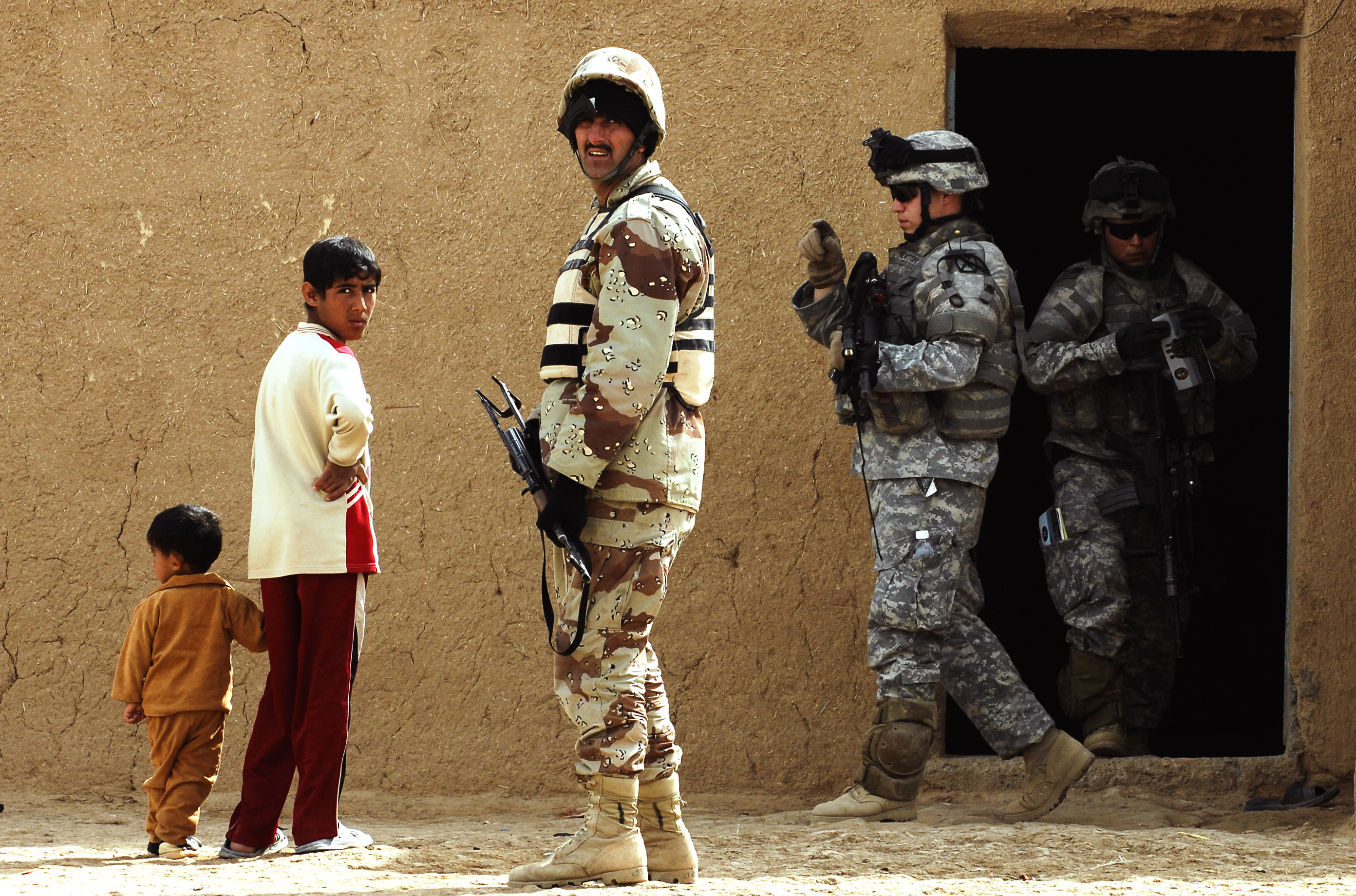 U.S. Army Soldiers from 3rd Battalion, 6th Field Artillery, 10th Mountain Division and Iraqi army soldiers conduct a four-day mission consisting of a cordon and search, humanitarian aid and building relations with local Iraqis in Kirkuk, Iraq, March 3, 2008. (U.S. Air Force photo by Staff Sergeant Samuel Bendet)